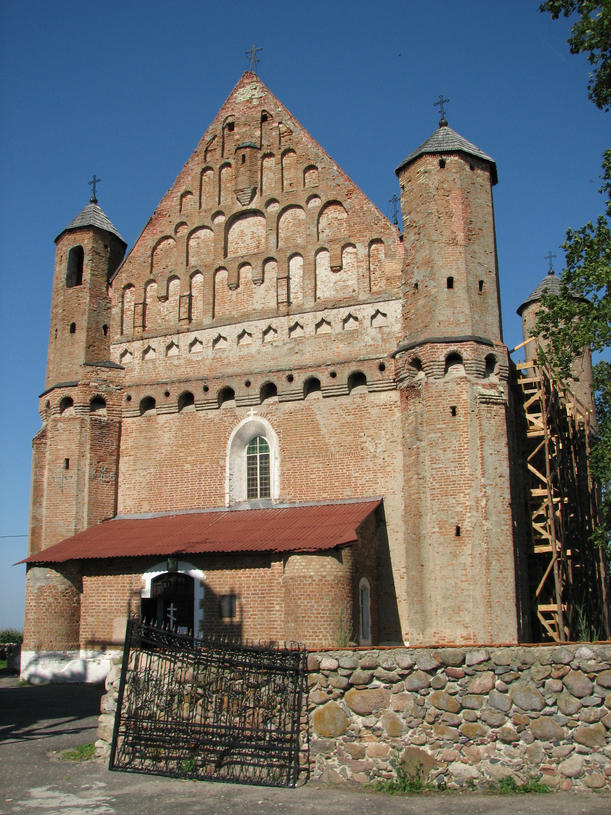 St. Michael church in Synkavichy, Belarus.